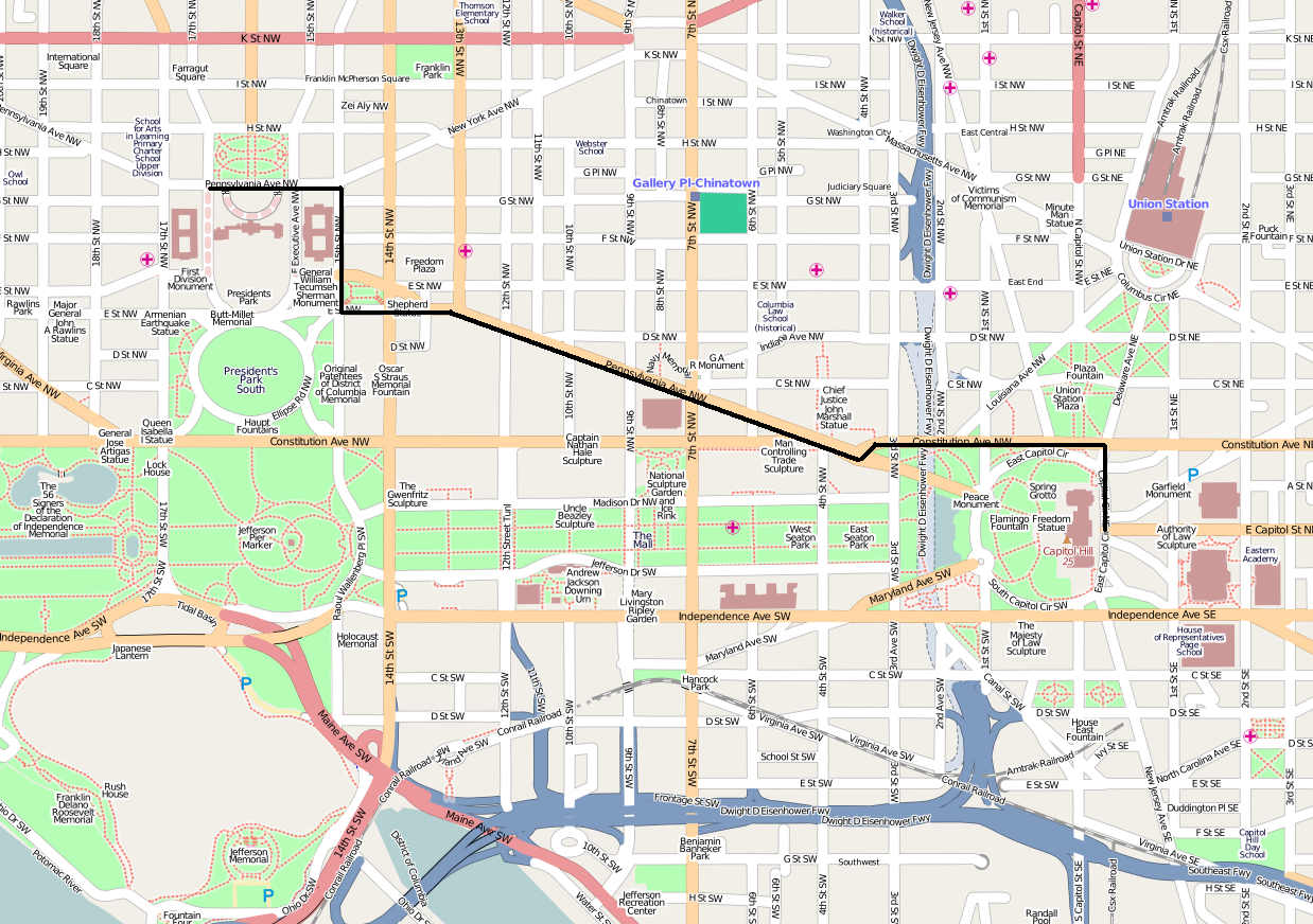 2009 Inaugural Parade Route in Washington, DC This map may be incomplete, and may contain errors. Don't rely solely on it for navigation.